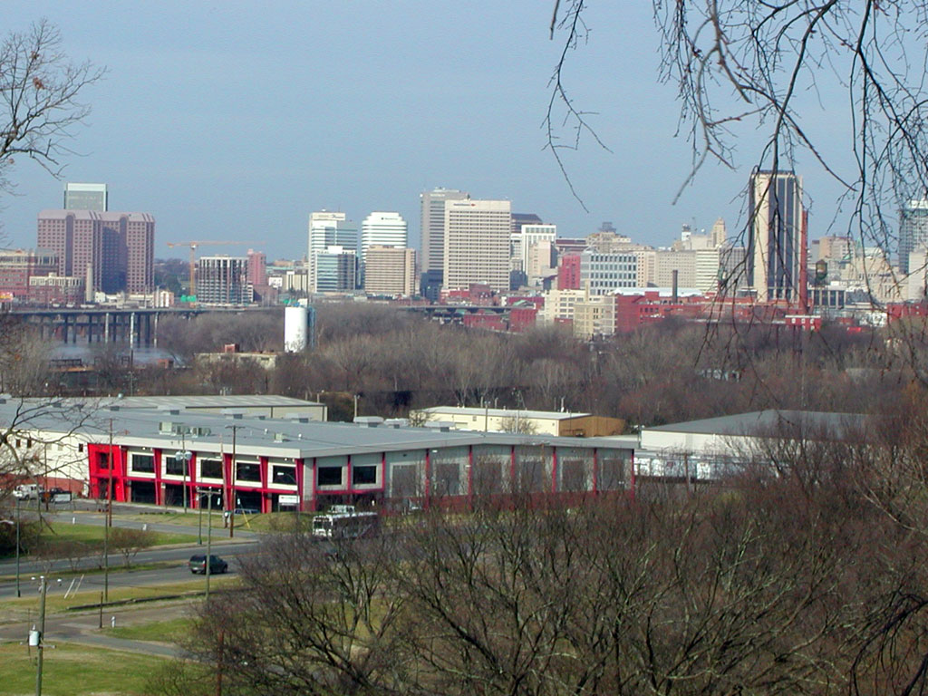 View of the Richmond, Virginia skyline, James River, and Fulton Bottom from the top of Powhatan Hill Park in the Fulton Hill neighborhood. Image captured using Nikon digital camera around 11AM, Sunday 14 January 2007.